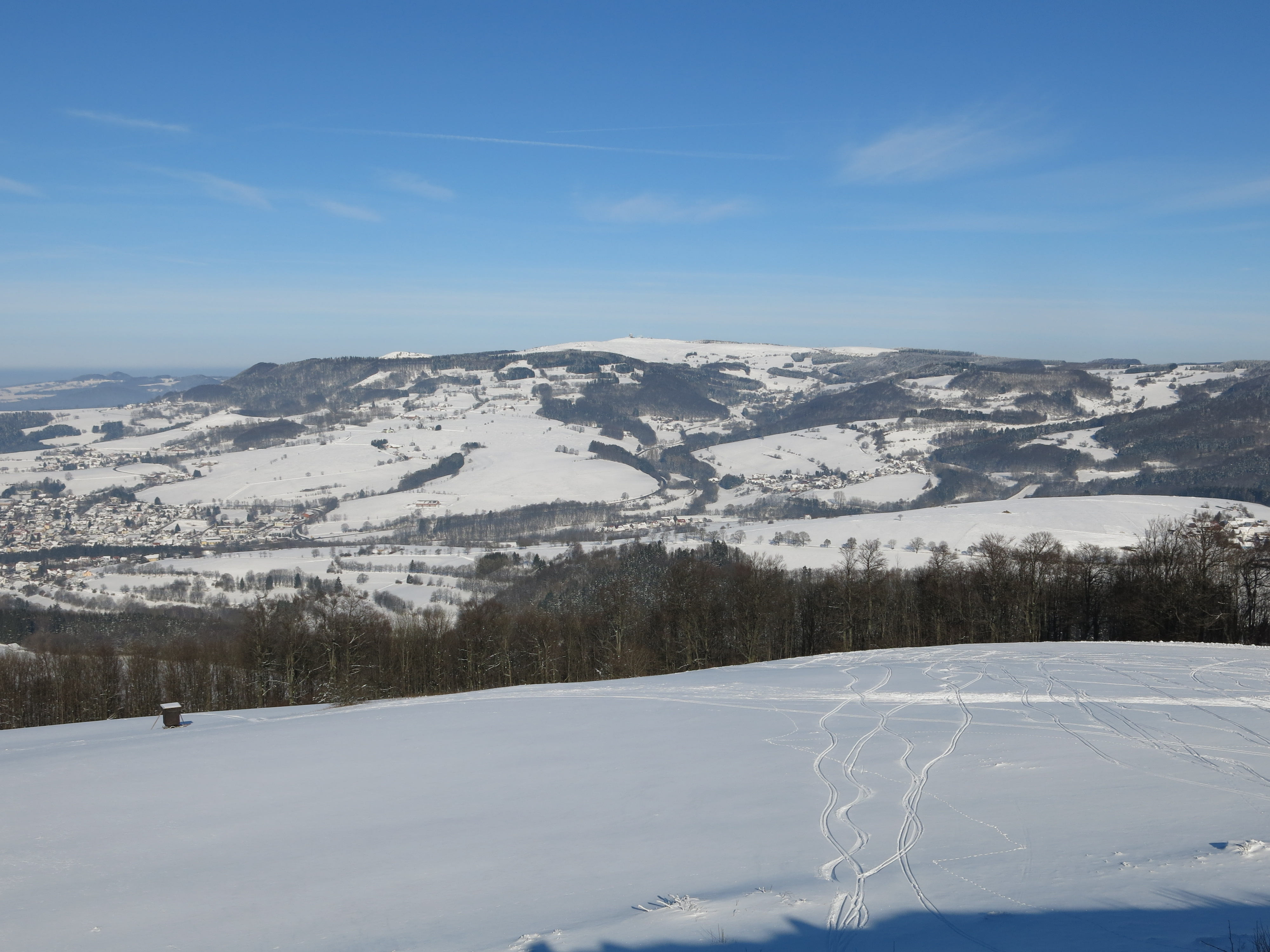 Wasserkuppe from south seen from Simmelsberg